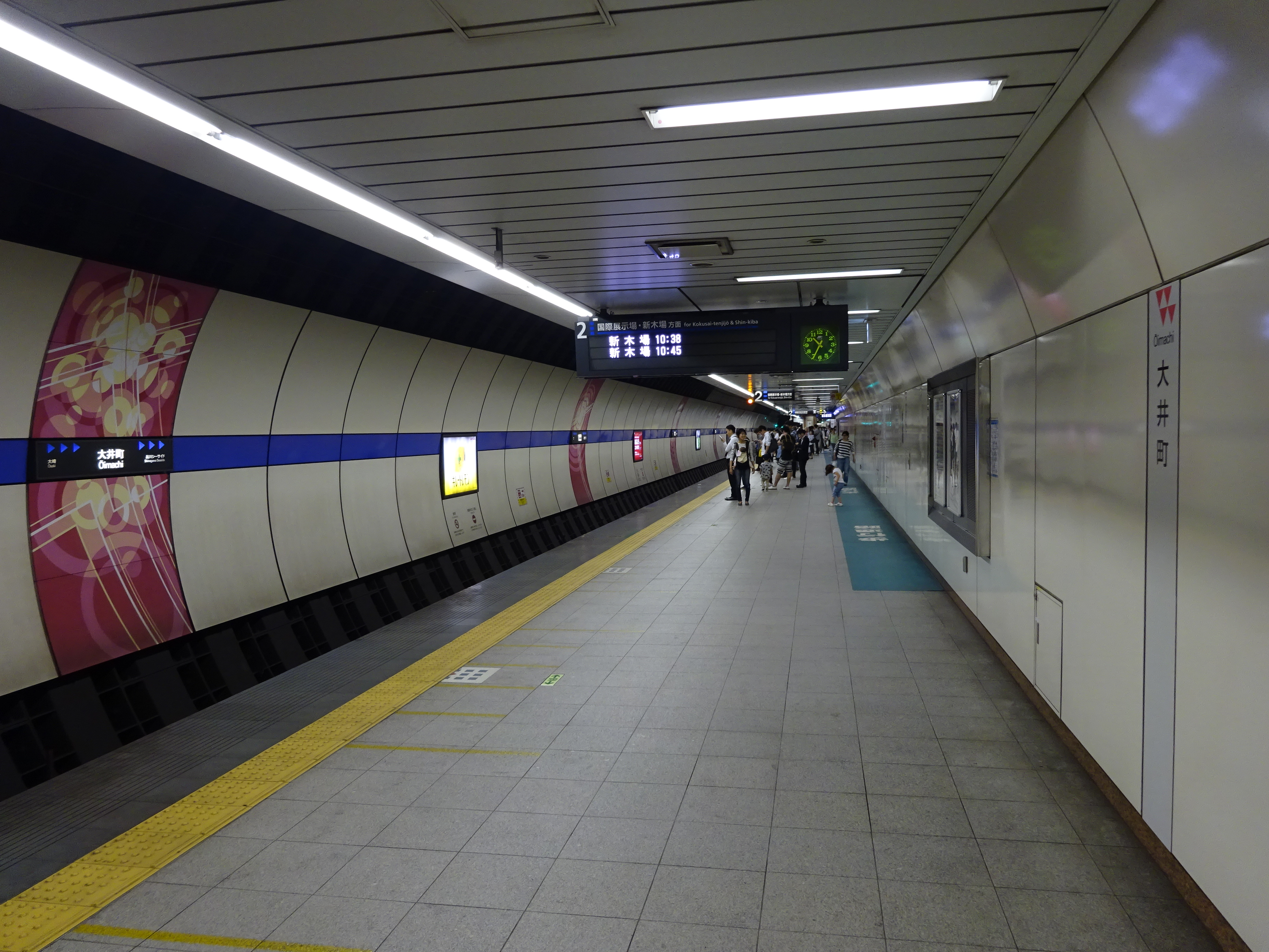 Platform No.2, Ōimachi Station(Rinkai Line)